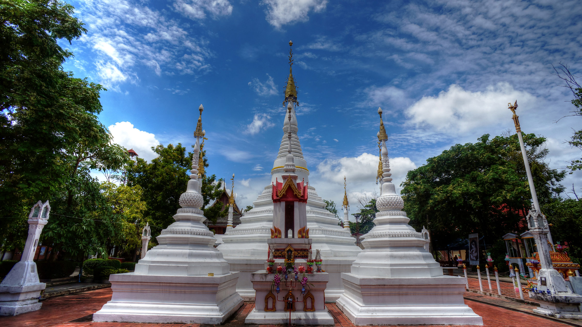 Phra Mutao (Mon-style chedi), Wat Chom Phu Wek